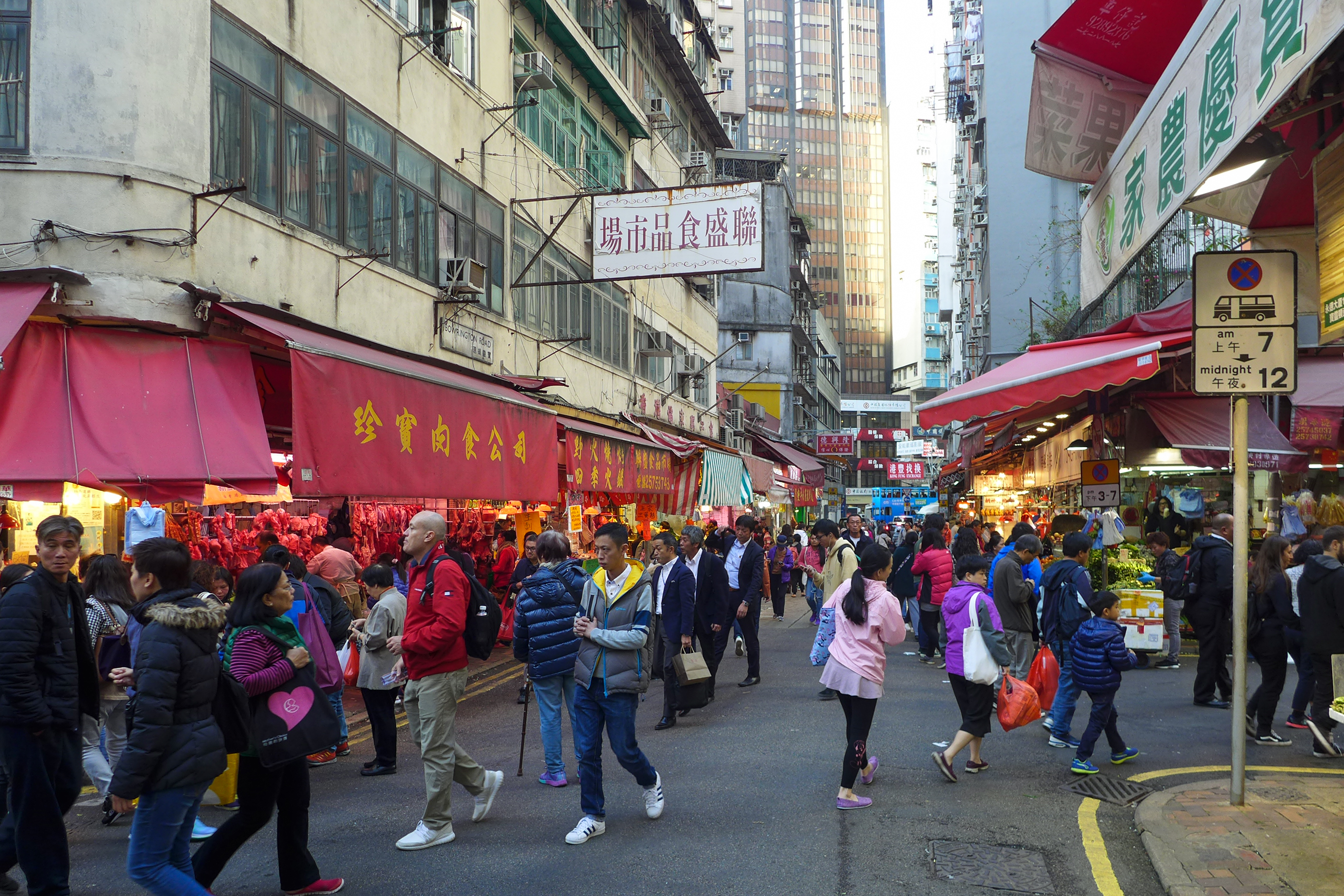 Bowrington Road